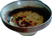 A cinnamon-flavored rice pudding that is a speciality of Normandy known as Teurgoule, aka Bourgoule